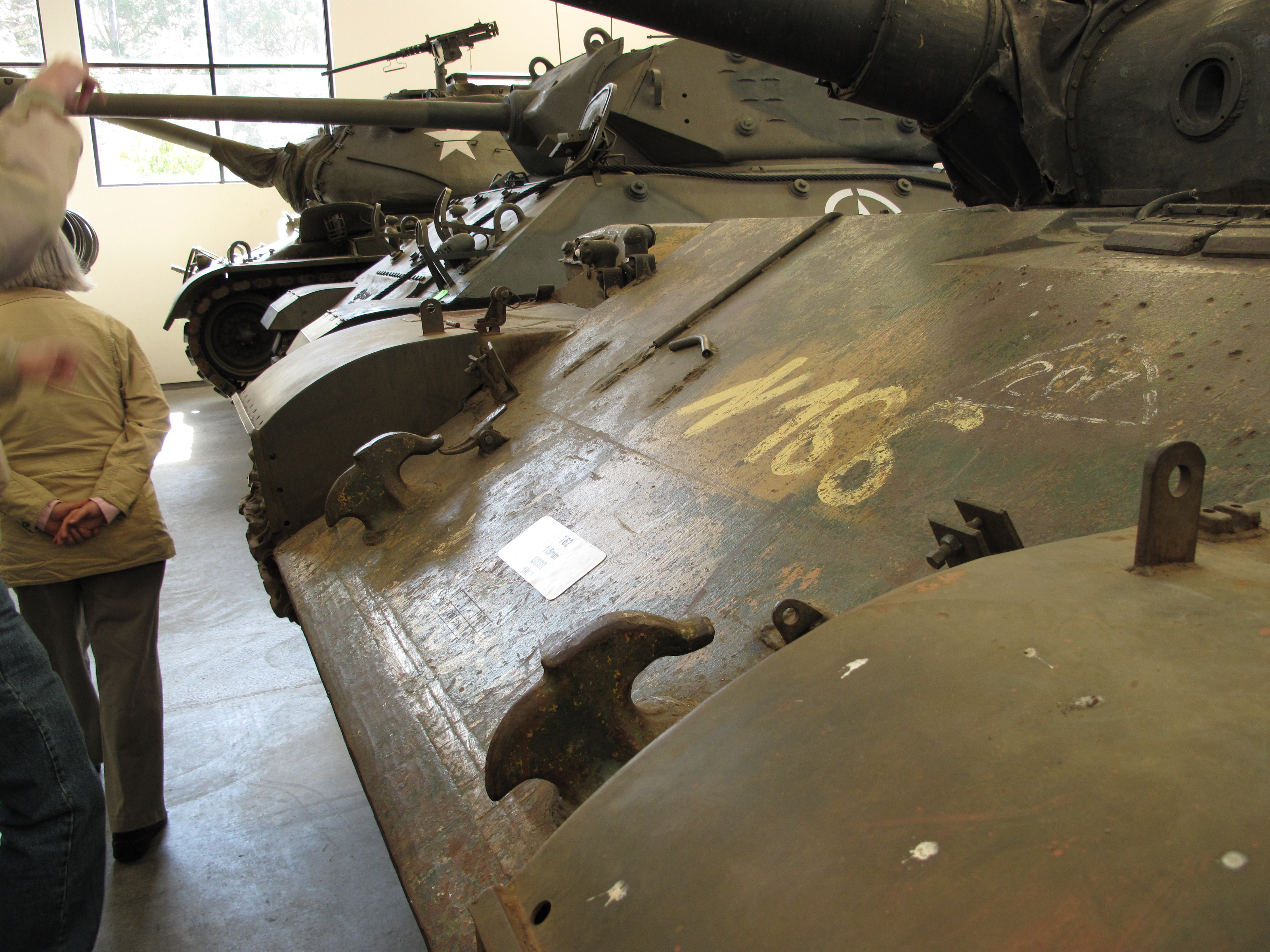 Glacis plate of the T-62 tank at the Military Vehicle Technology Foundation.